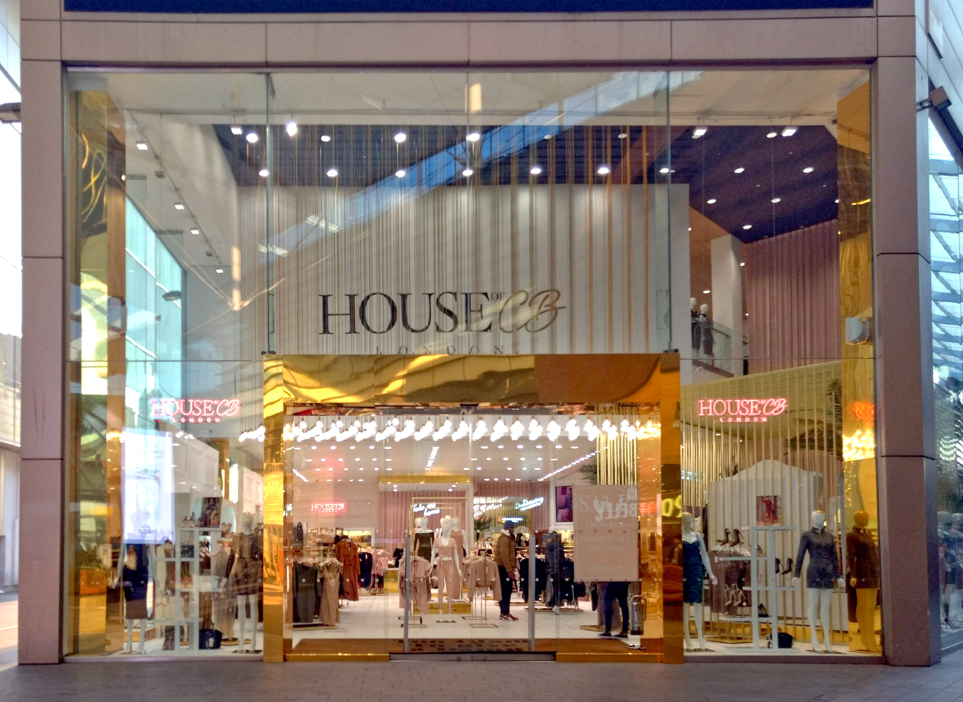 House of CB